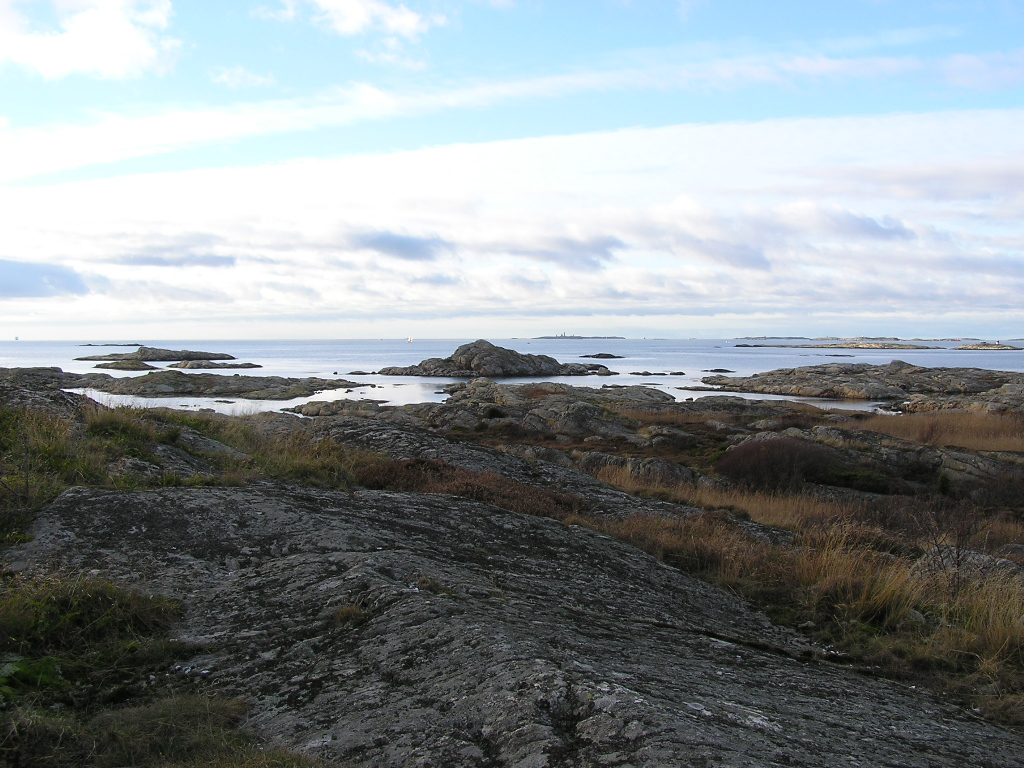 Vargö island, southern archipelago of Gothenburg, Sweden